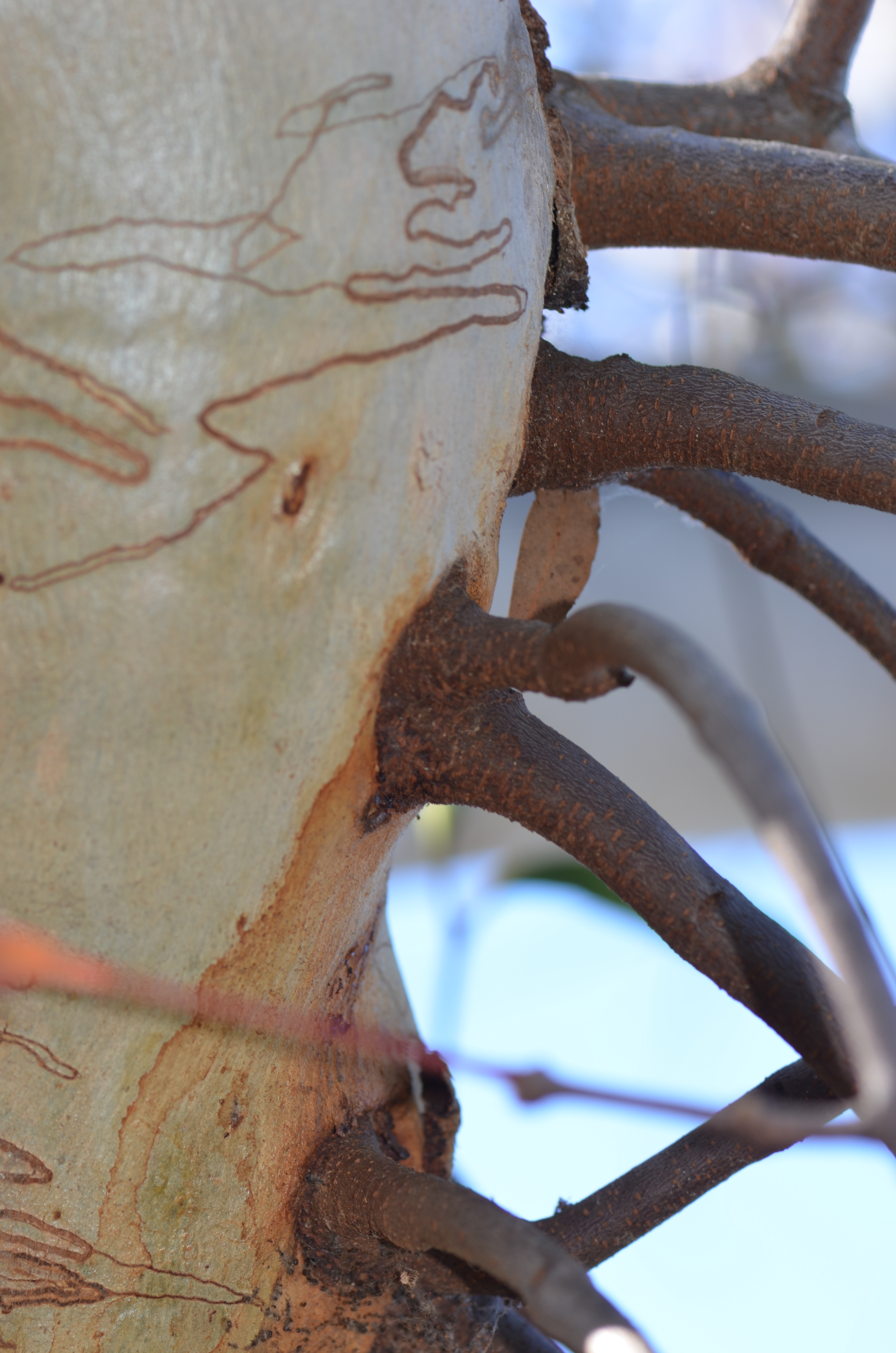 Haustoria of Mistletoe,Muellerina eucalyptoides", on "Eucalyptus haemastoma ", Ku-ring-gai NP, NSW.